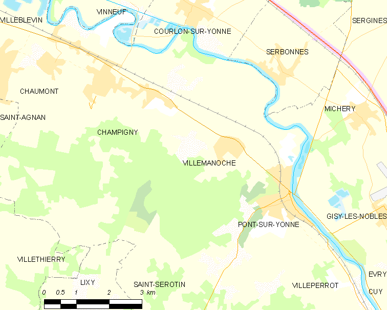 Map of French municipality Villemanoche